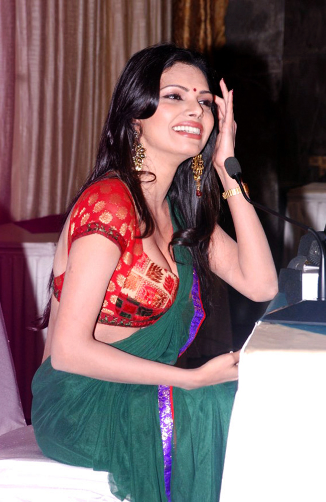 Sherlyn Chopra at Playboy press meet